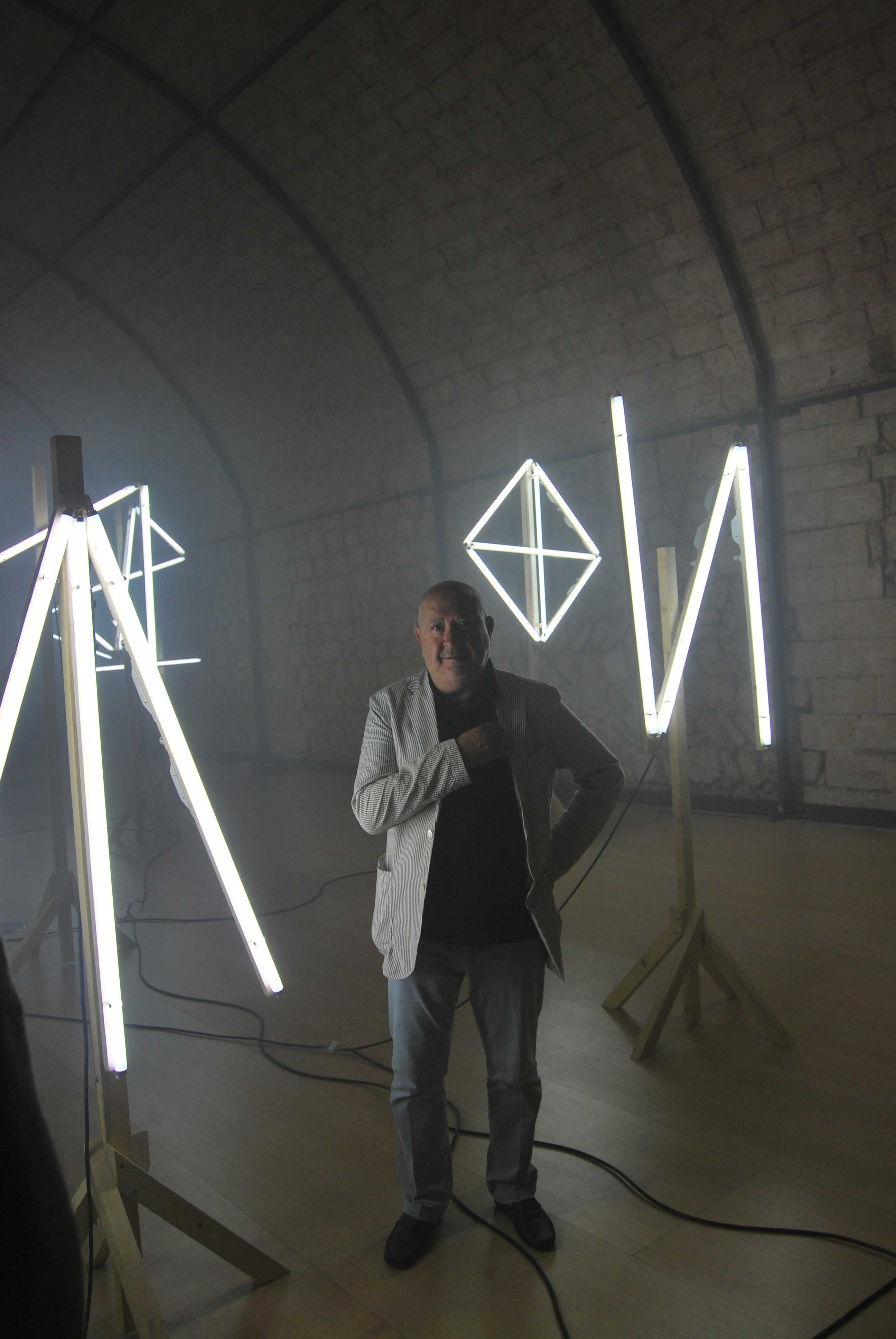 The artist Christian Boltanski with the installation 'Signatures', made specifically to be placed into the Es Baluard's Aljub hall.